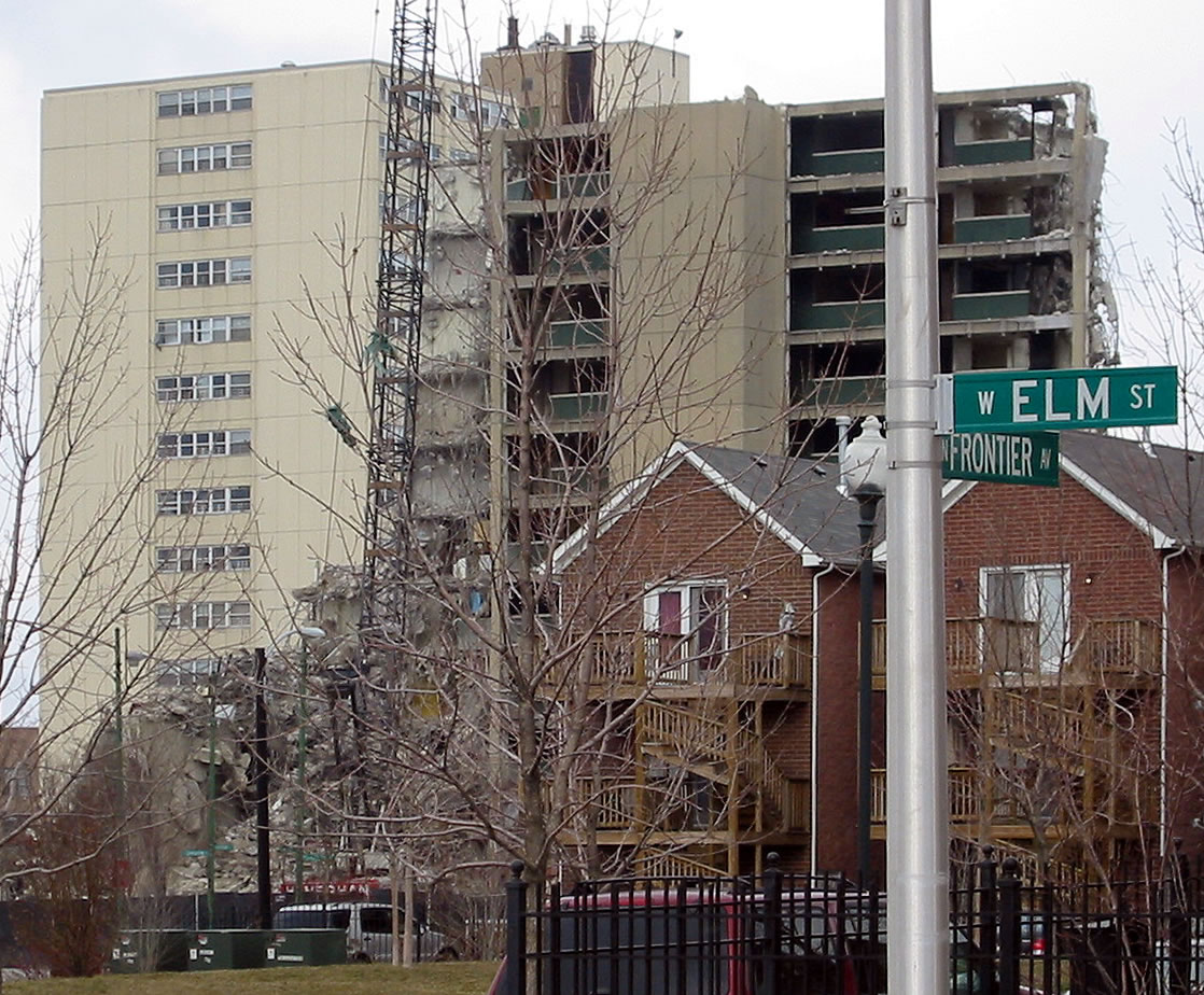 Green Homes 2 under demolition, but still towers behind newly built mixed-income townhouses. Photo taken February 2006 by Payton Chung Original